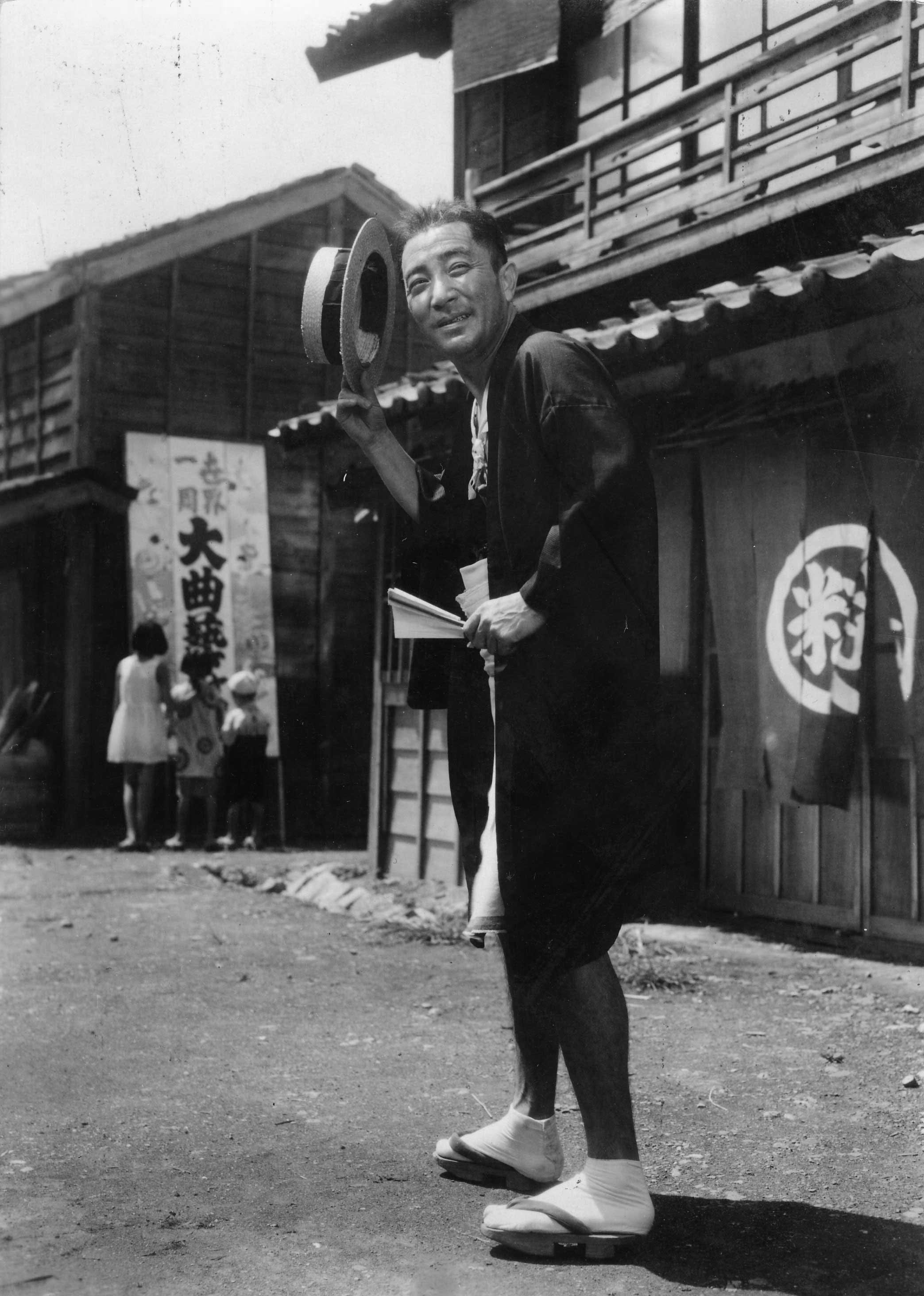 Tsumasaburō Bandō in Ōshō (王将) directed by Daisuke Itō - 1948